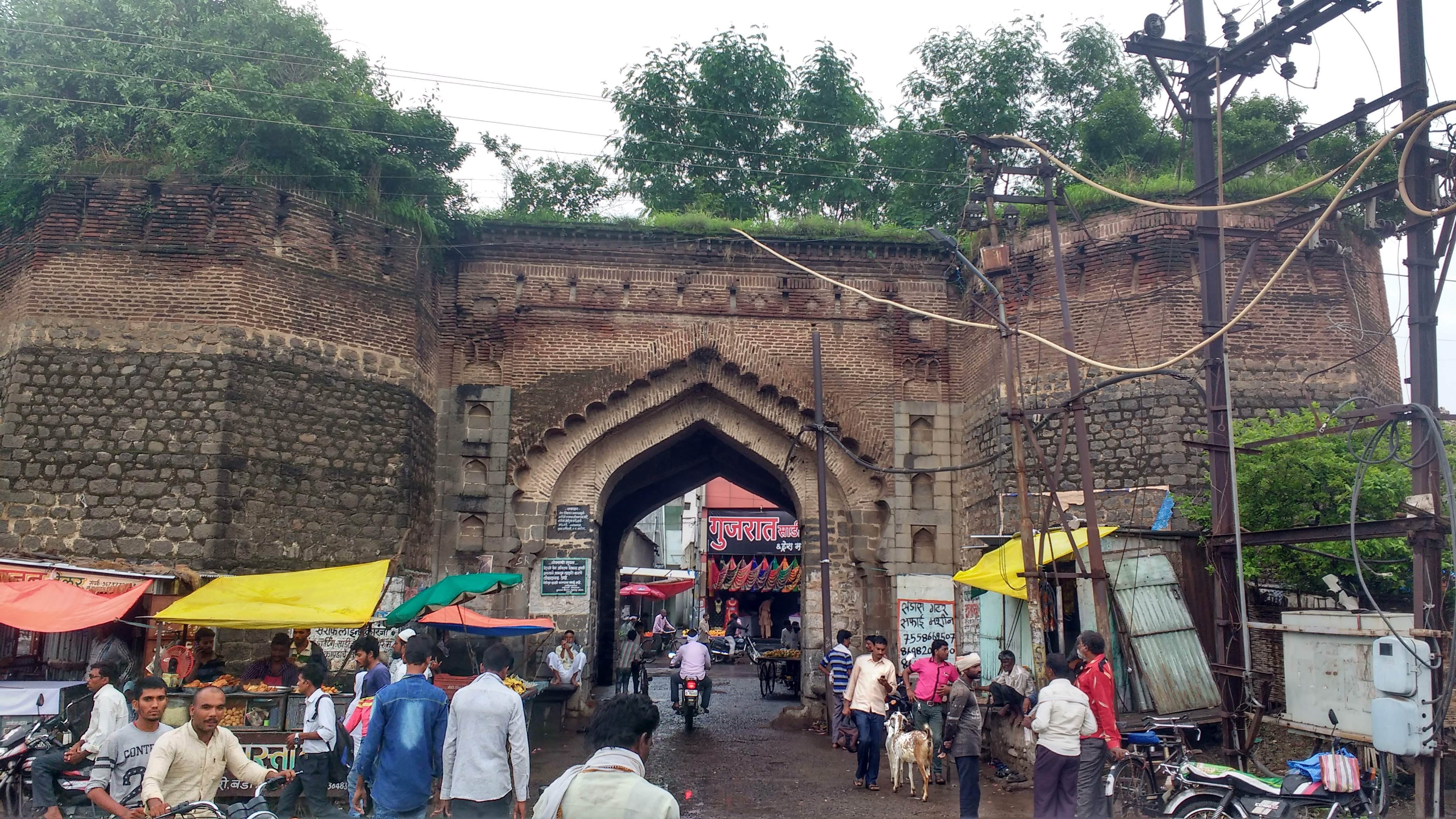 Delhi Gate/vesh is a old historical Gate of Land fort of Karanja town. This Gate is situated at North side of town.